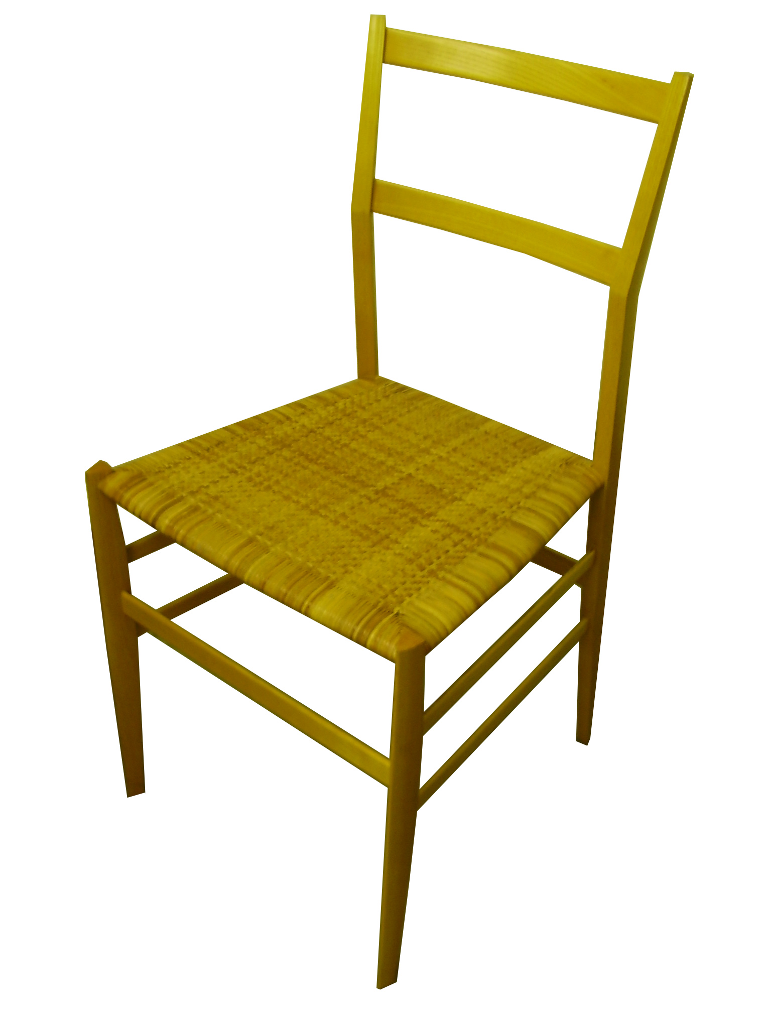 Description Chaise Superleggera de Gio Ponti Date28 October 2008SourceSelf-photographedAuthorCyril5555Permission (Reusing this file) voir ci-dessous Chaise Superleggera de Gio Ponti